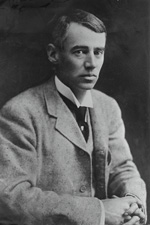 United States Senator Thomas F. Bayard, Jr. From the Library of Congress.